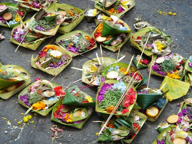 Taken by (WT-shared) Shoestring Was in category Bali on wikivoyage